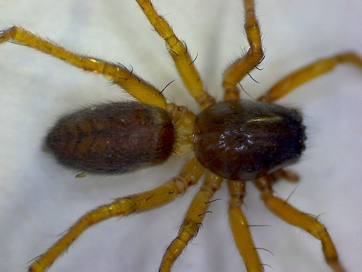 Clubiona comta, male. Location: The Netherlands - Middelburg - Binnenstad